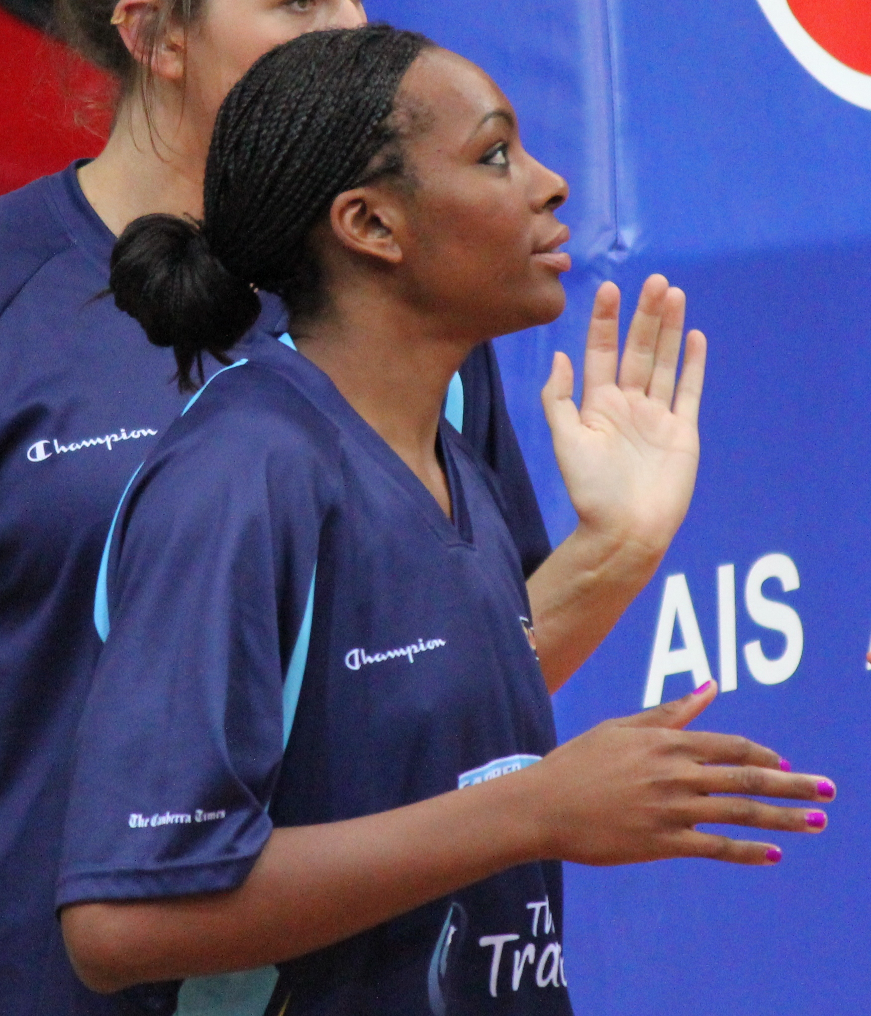 Canberra Capitals versus the Adelaide Lighting at the AIS Arena on 9 November 2012.